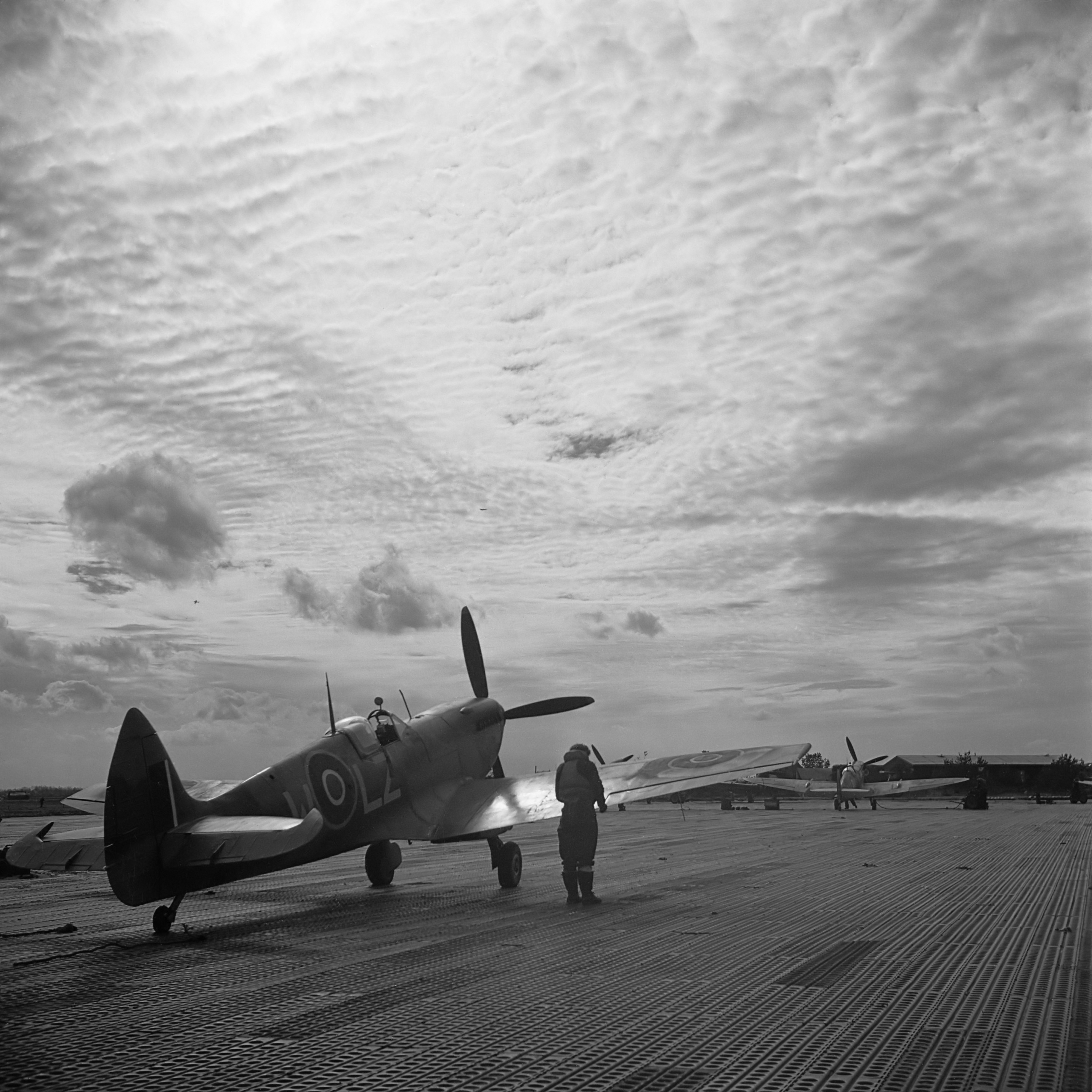 Fighter planes on the airstrip near Schijndel (May 1945)